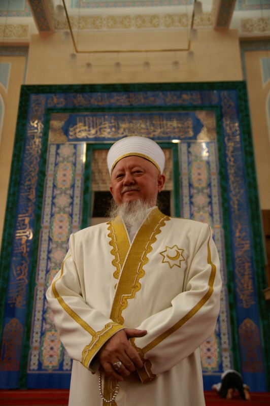 Sheikh Absattar Derbisali, the Grand Mufti of Kazakhstan, standing in Astana's Grand Mosque.